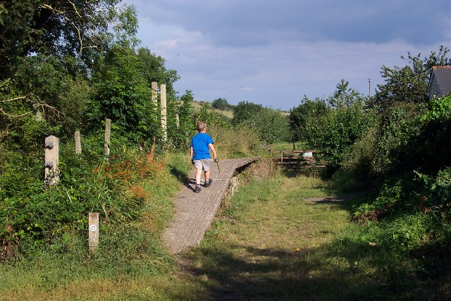 Yarde Halt on the Tarka Trail. At least this halt had a few houses close by (on the right of the picture), unlike Watergate Halt further north. For some reason the cycle path goes behind the platform here.